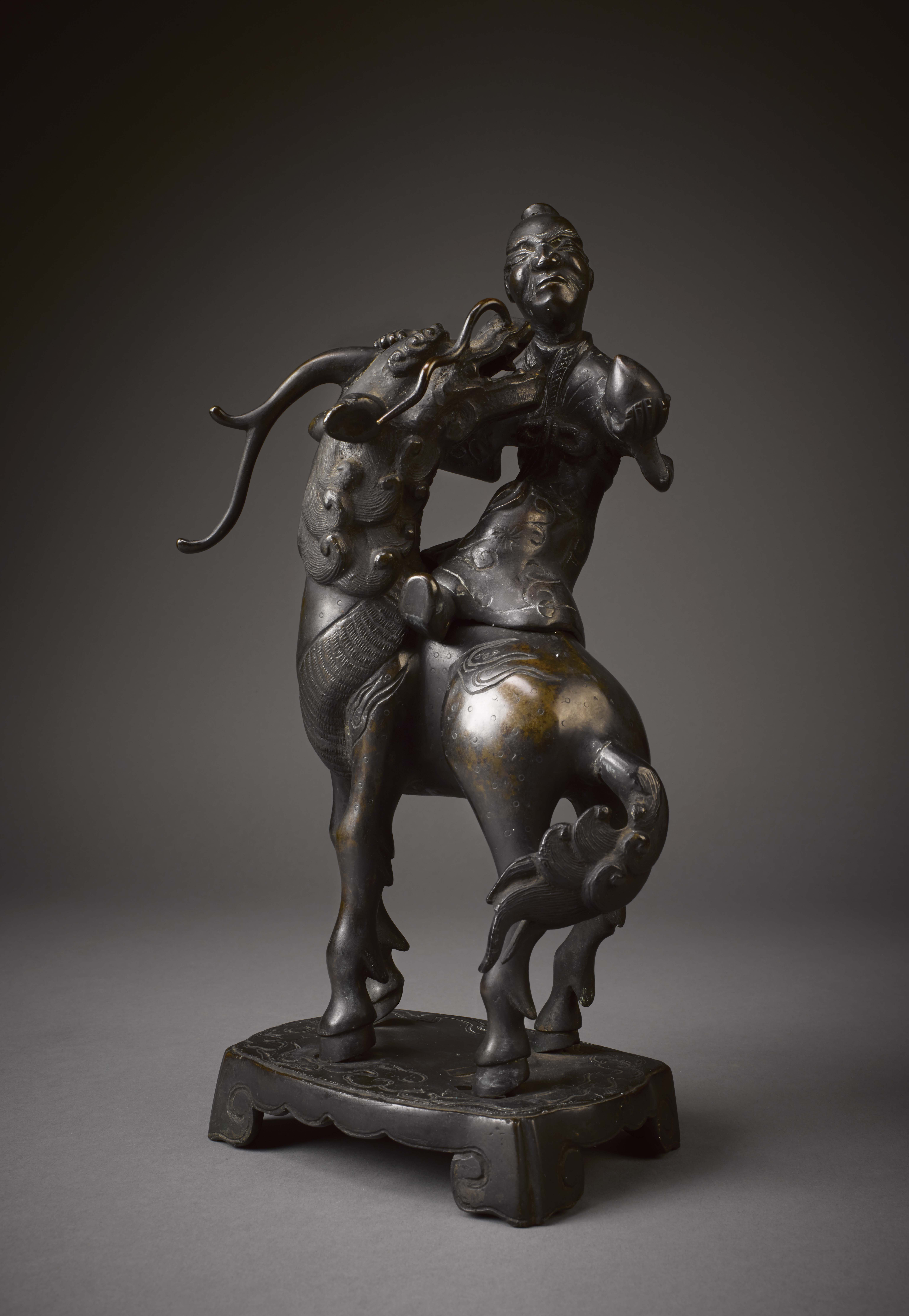 This bronze statue shows a rider sitting astride a qilin. A qilin is a mythical, East Asian beast that is part dragon and part deer. This object is currently housed in the Oxford College Archives of Emory University.